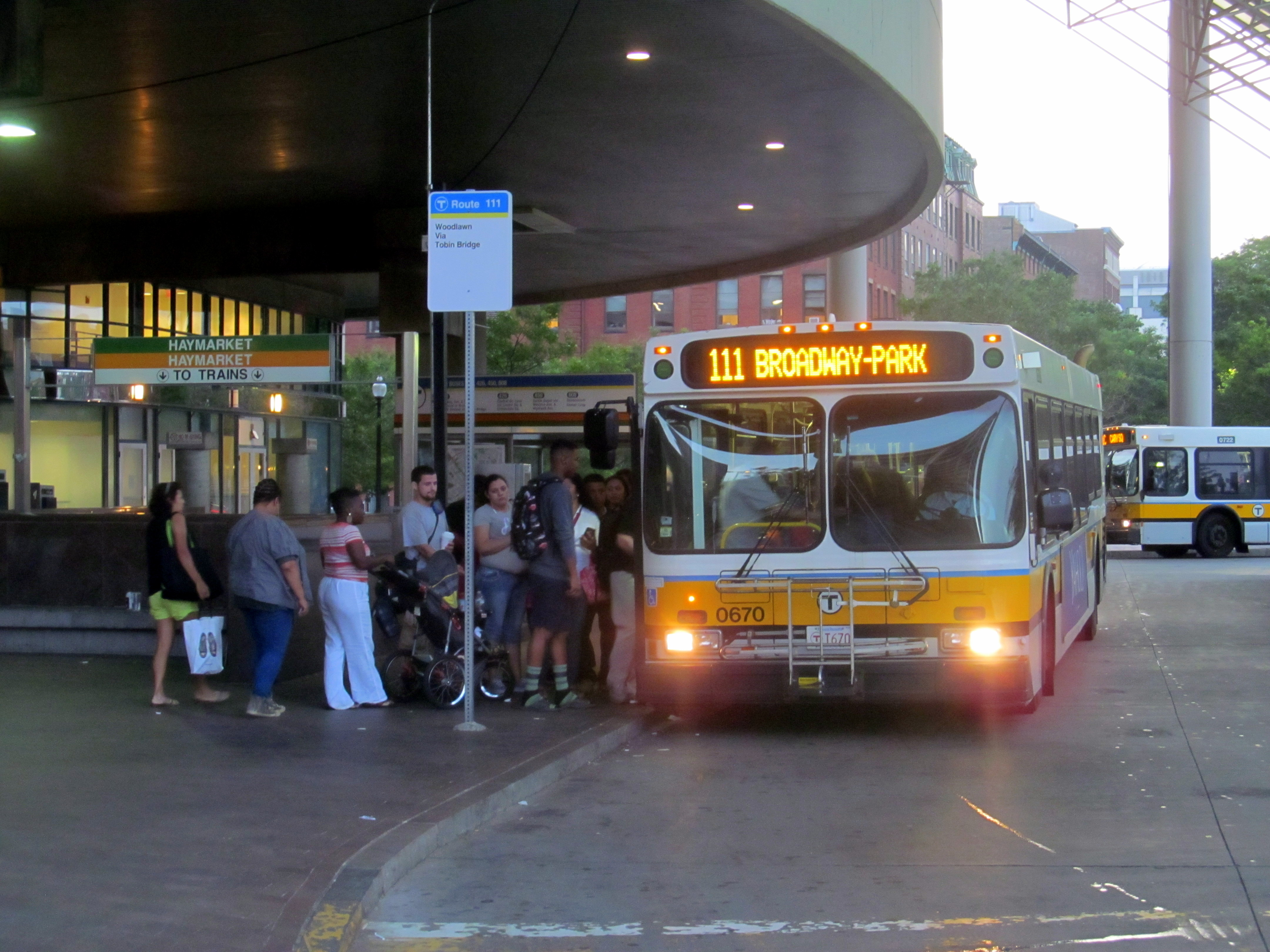 A #111 bus signed for Park Avenue and Broadway in Revere - the longest of three #111 route variations - boards passengers at Haymarket station in July 2015